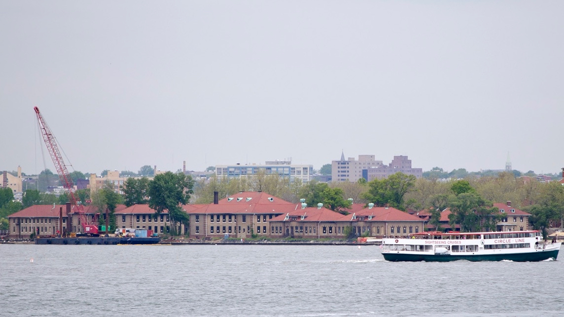 Cropped image of File:Ellis Island from Staten Island Ferry (7208224926).jpg focusing on the Ellis Island Immigrant Hospital.